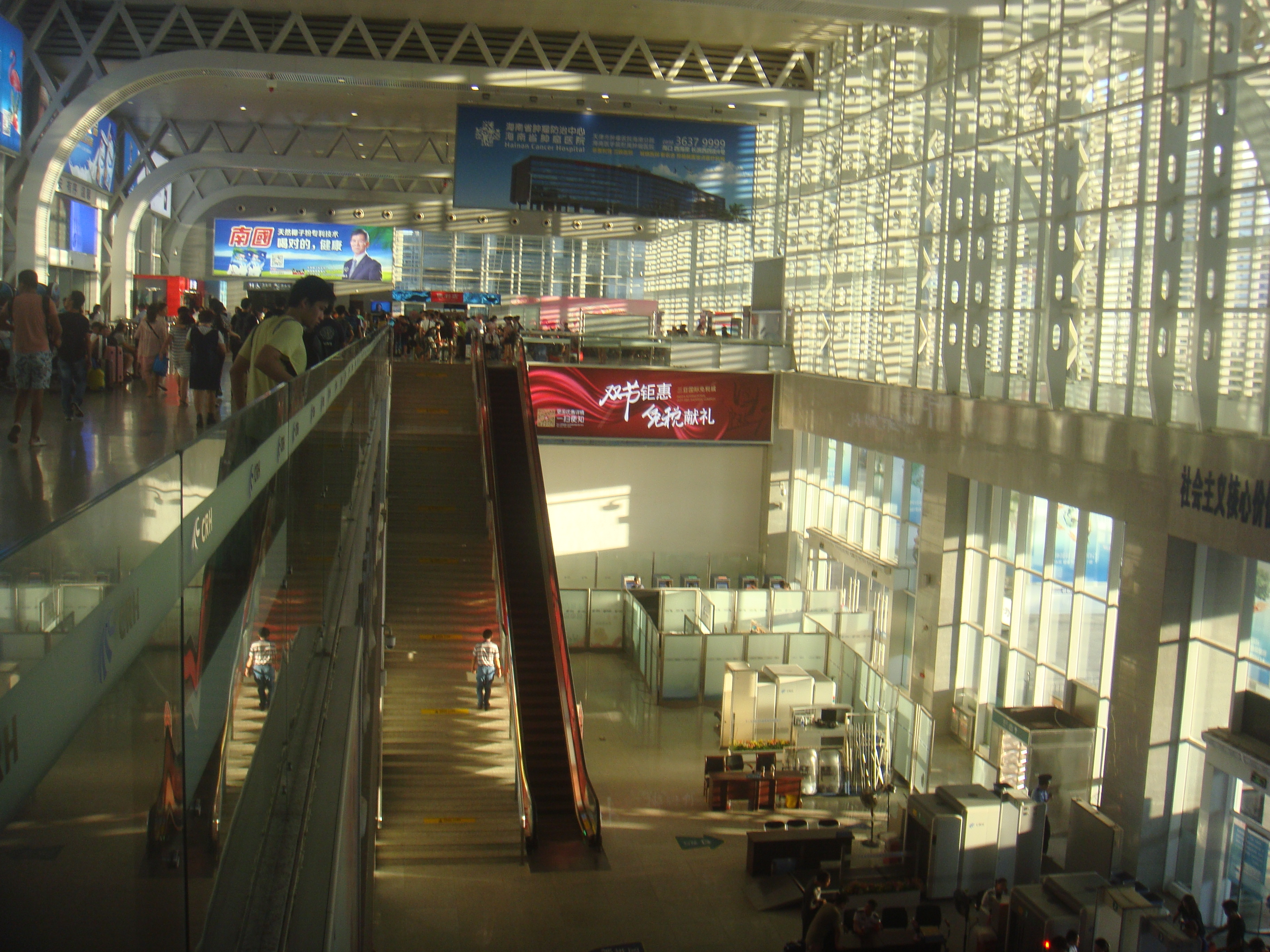 Haikou East Railway Station interior